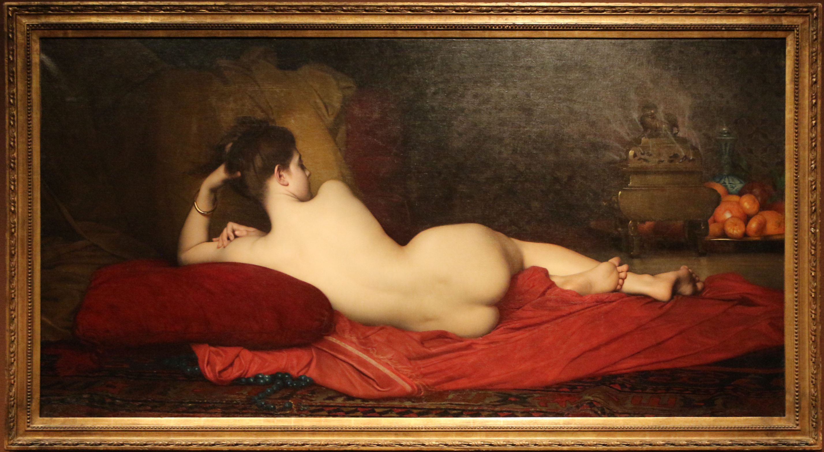 French paintings in the Art Institute of Chicago